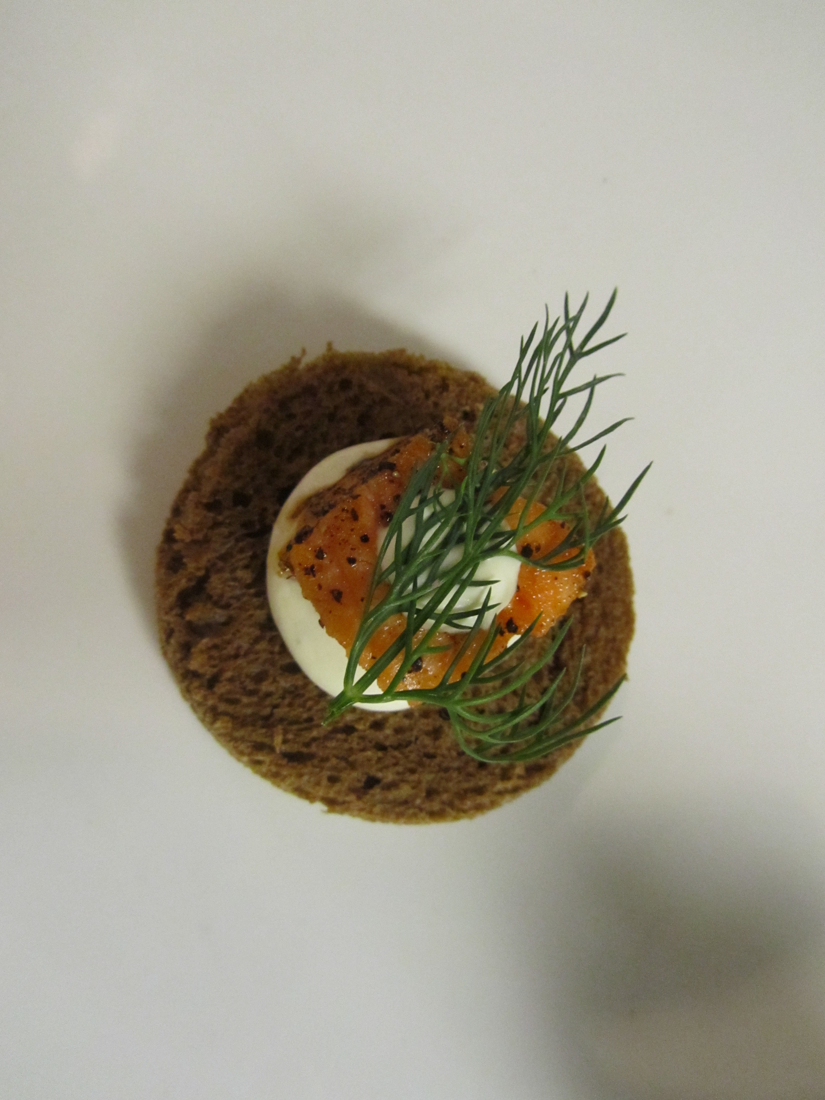 A wild salmon canape by Chef Kevin Doherty, A Boston area Chef at Showcase Live